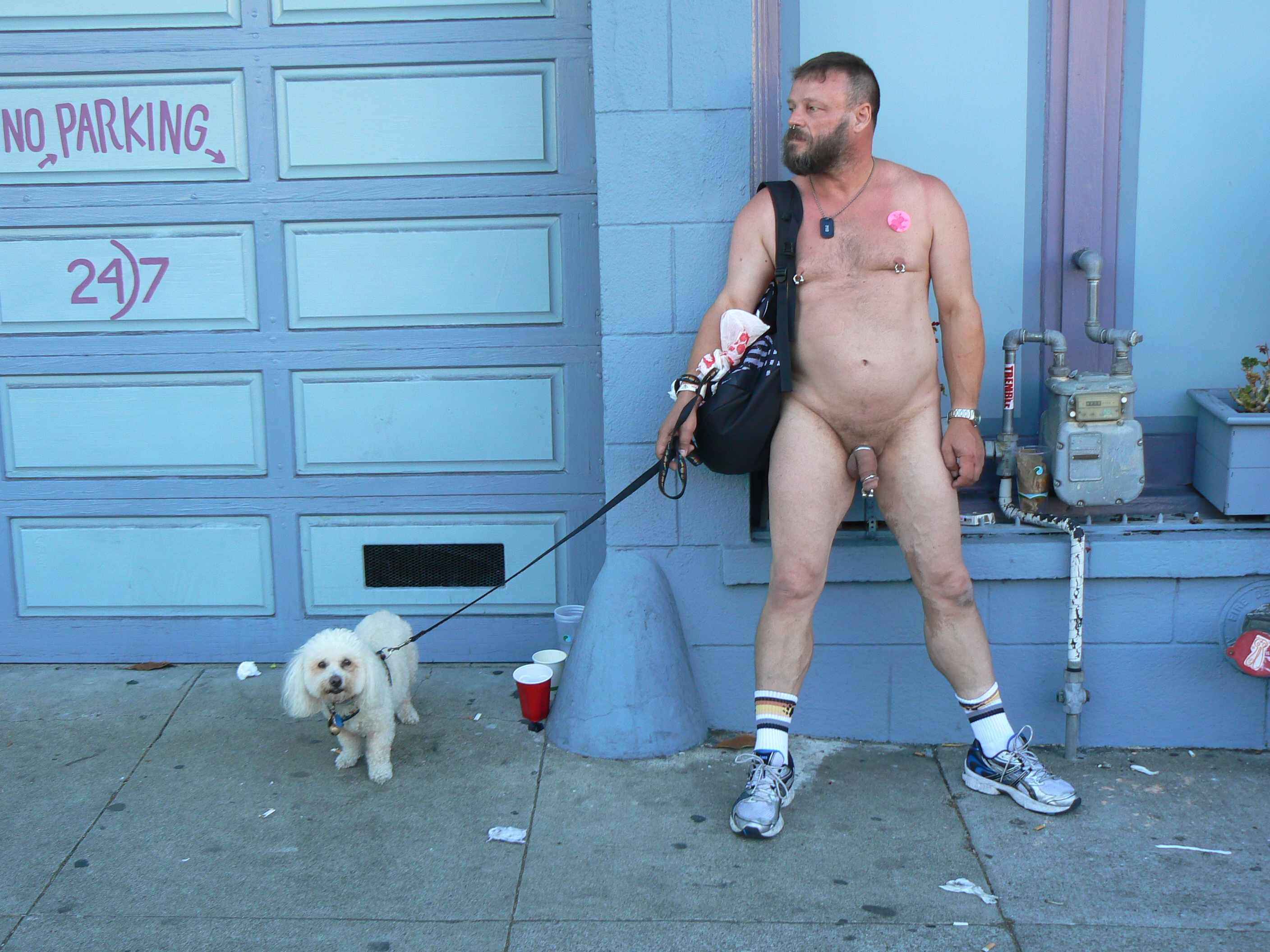 A bear walks his dog at the 2010 Folsom Street Fair in San Francisco.